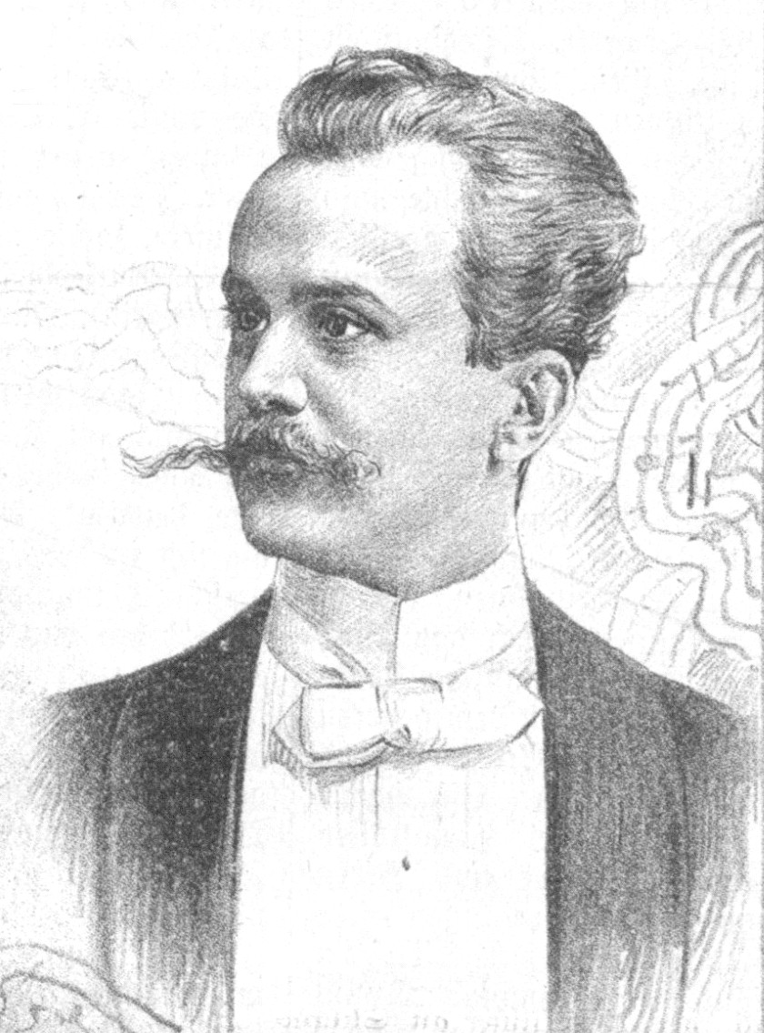 Portrait of Otto Findeisen (1862-1947), Austrian and German composer and conductor. Cropped from a gallery of operette artists in Vienna.